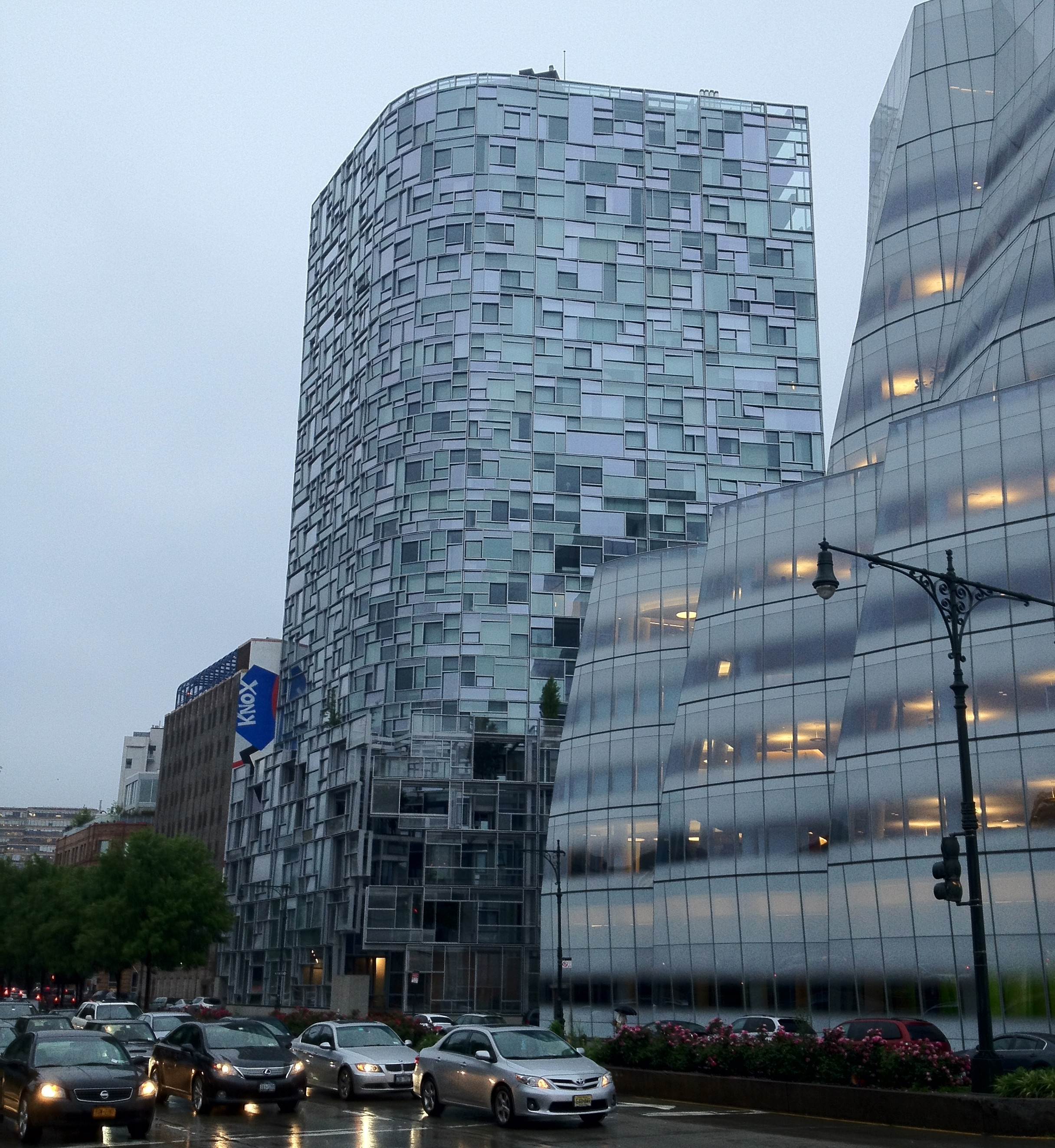 Photo